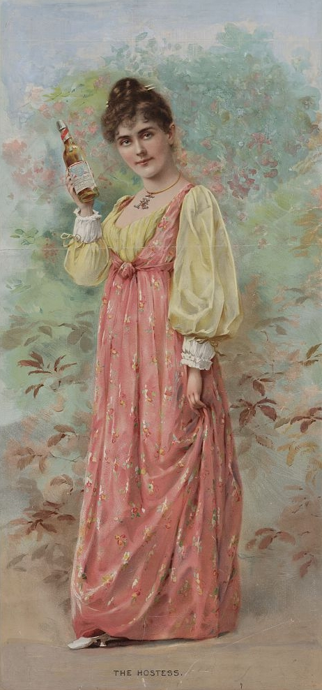 The hostess (Budweiser lager bier). Library of Congress description: "Advertisement or premium for Anheuser Busch Brewing Co., showing a young woman holding a bottle of Budweiser beer with label in German. She wears a necklace bearing the Anheuser Busch insignia 'A.'"